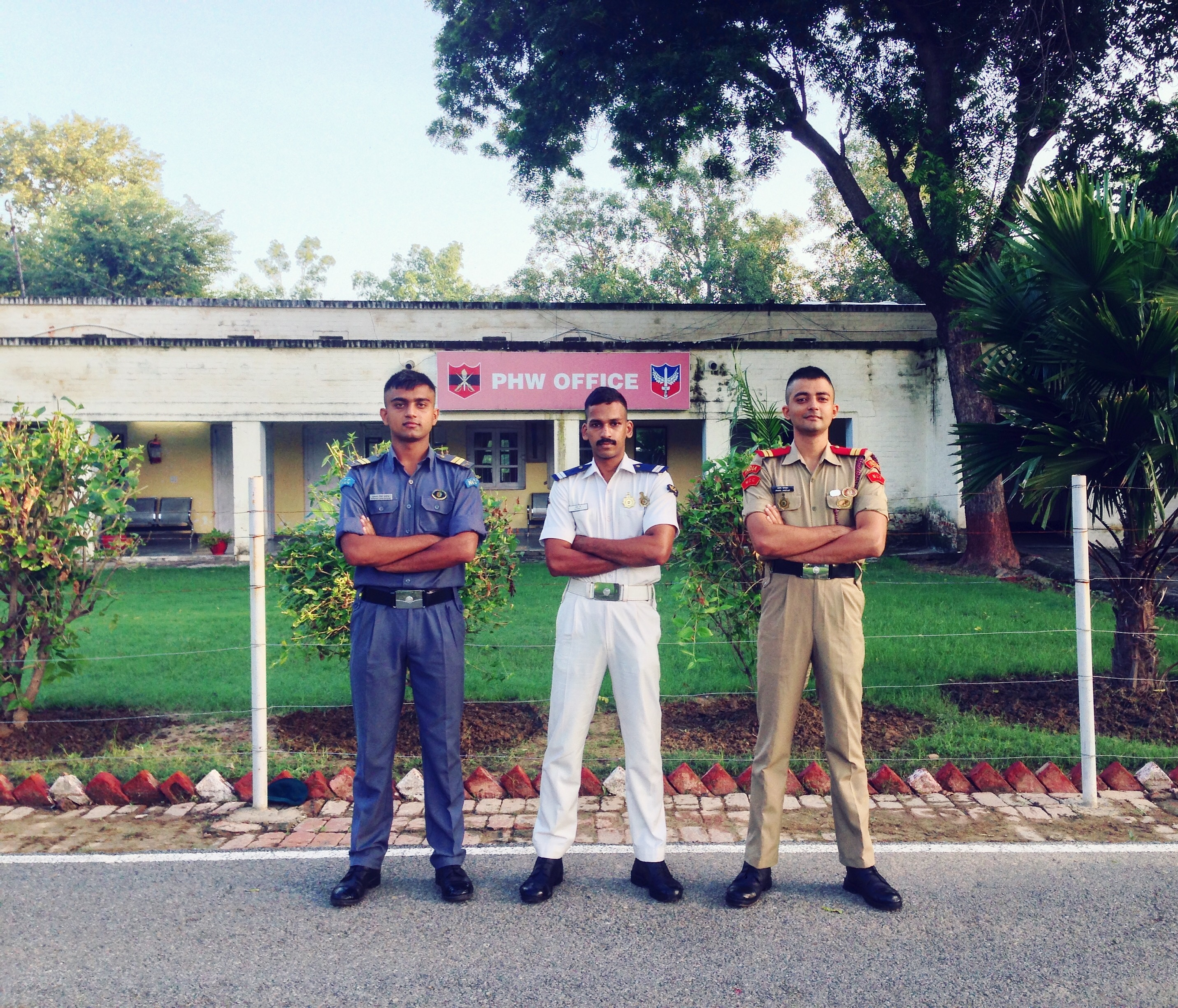 National Cadet Corps Off-Parade Uniform (left to rightː airforce, navy, army)